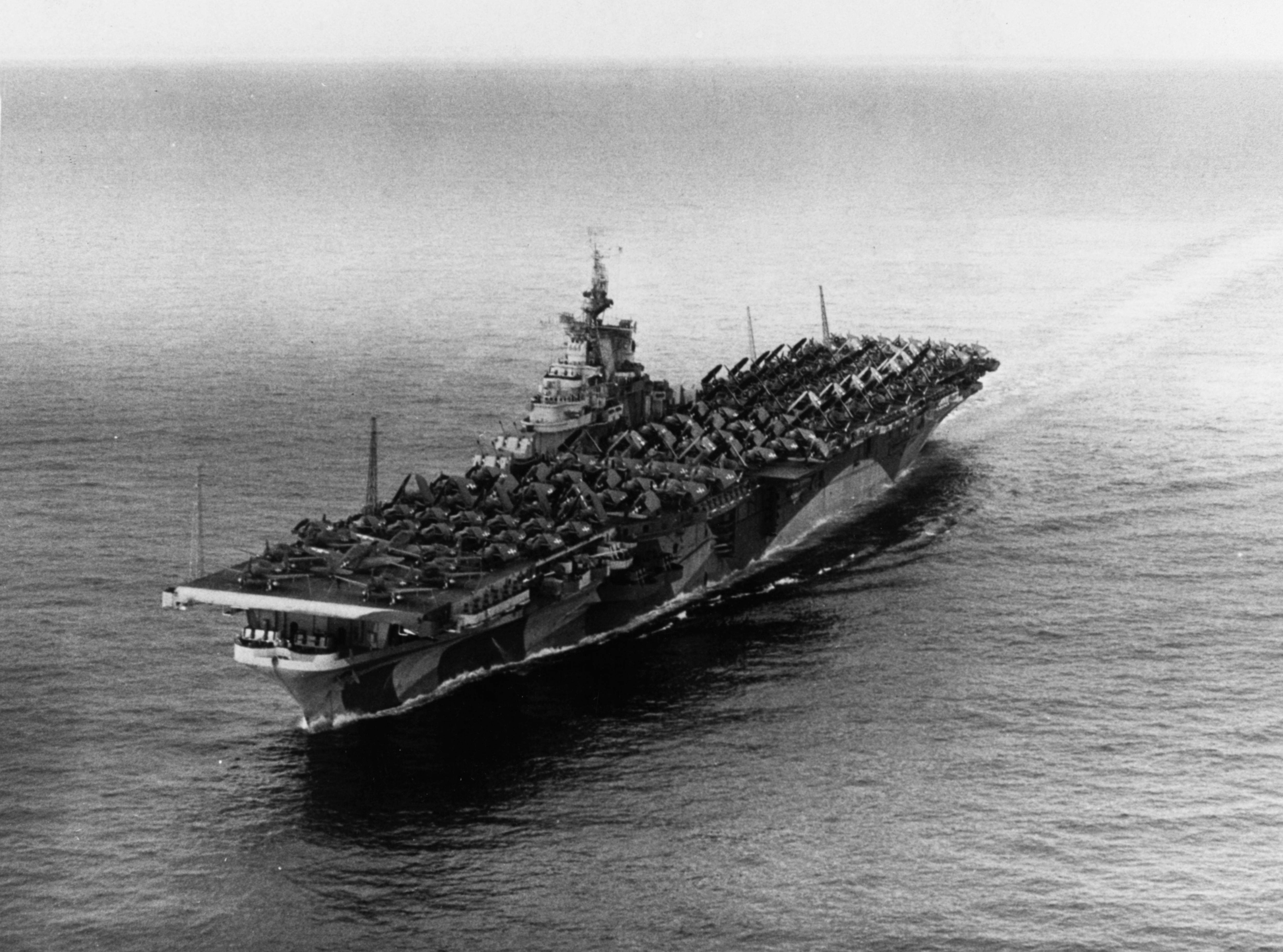 The U.S. Navy aircraft carrier USS Ticonderoga (CV-14) off San Diego, California (USA), 16 September 1944, loaded with aircraft to be transported to Hawaii. The ship is painted in camouflage Measure 33, Design 10a.